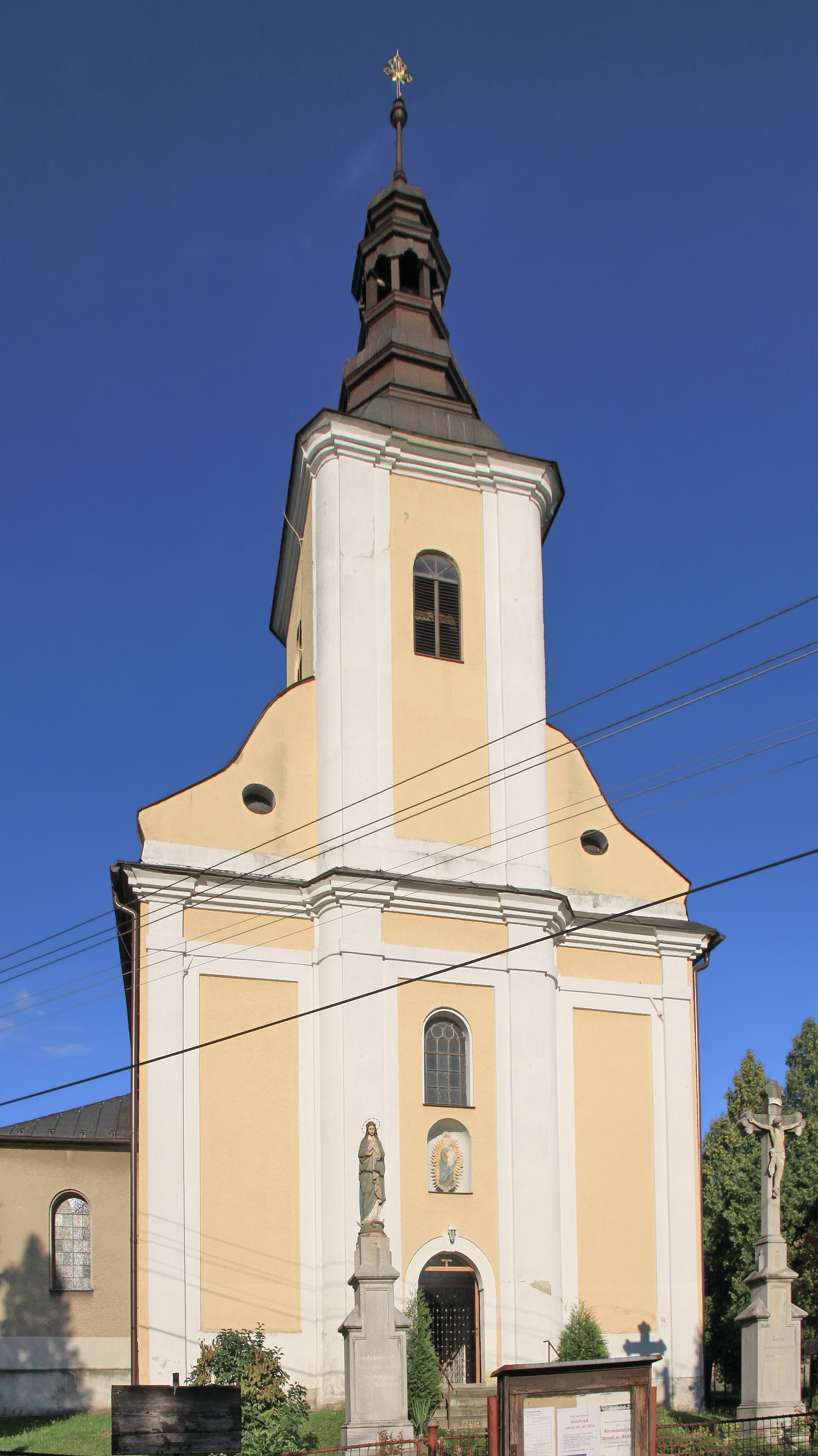 Saint Margaret church, Bludovice, Havířov. Moravian-Silesian Region, Czech Republic.